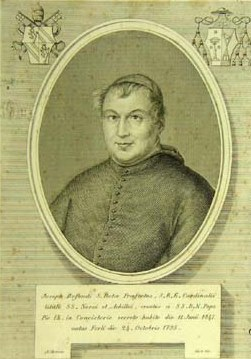 Giuseppe Bofondi (1795-1867), cardinal secretary of state